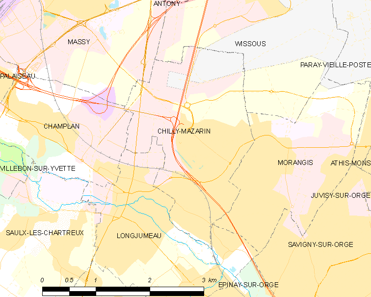 Map of French municipality Chilly-Mazarin